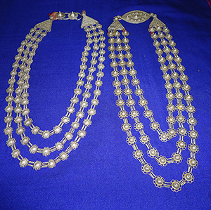 A long necklace made of silver worn by females.